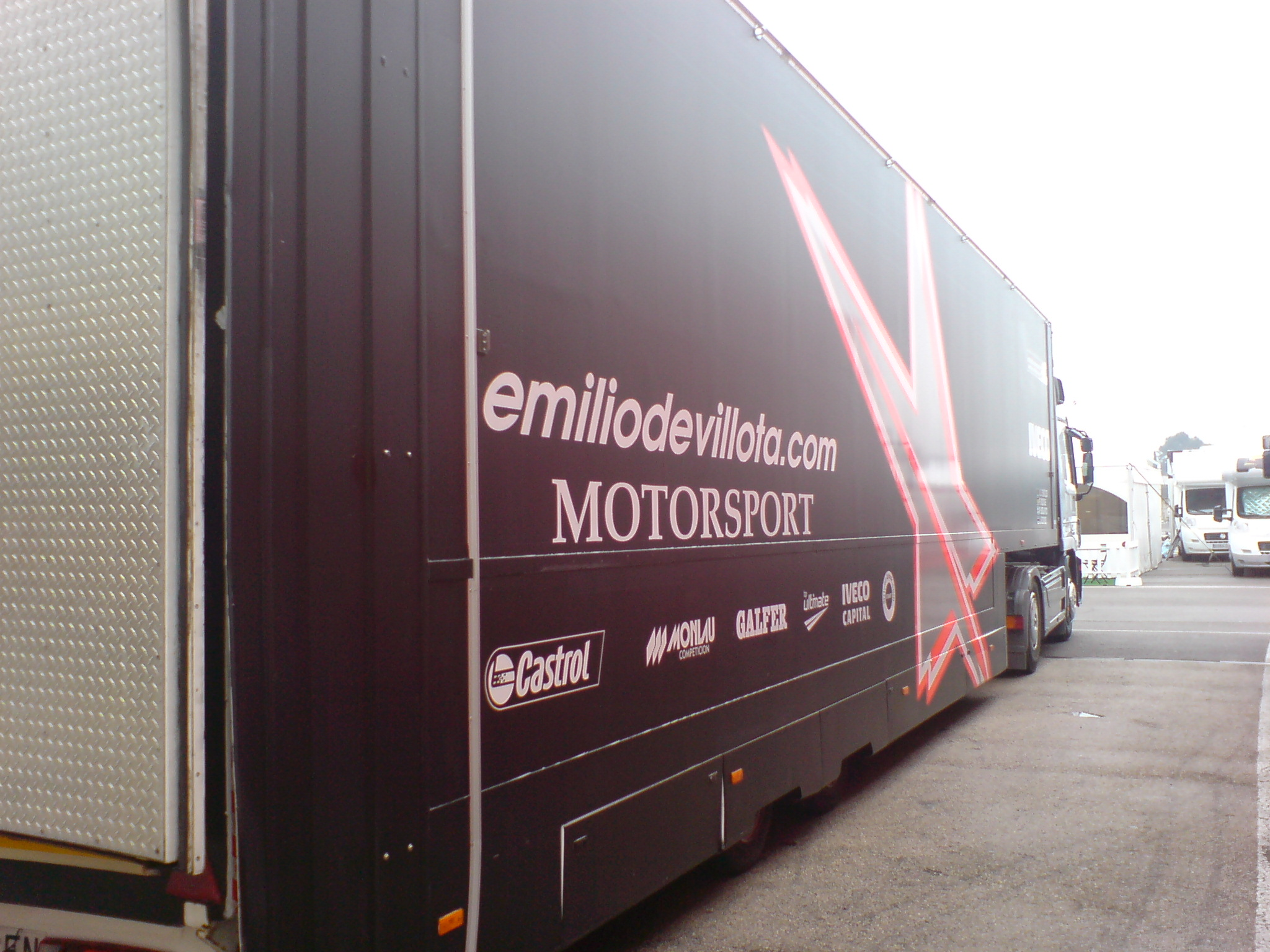 Emilio de Villota Truck